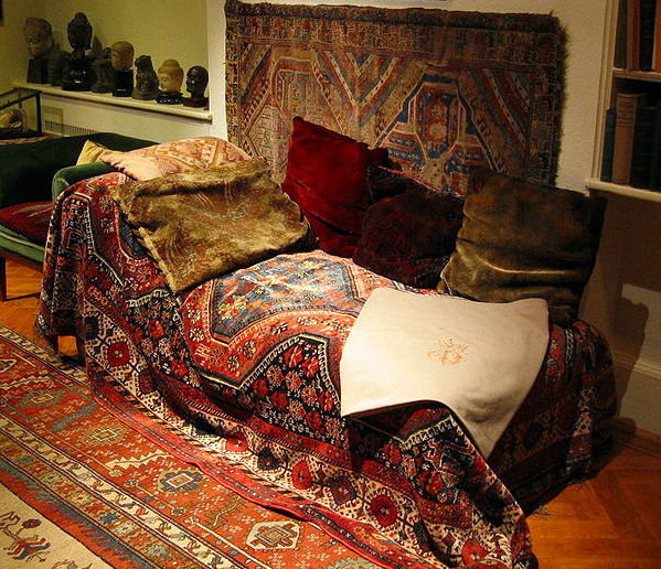 SIGMUND FREUD'S SOFA